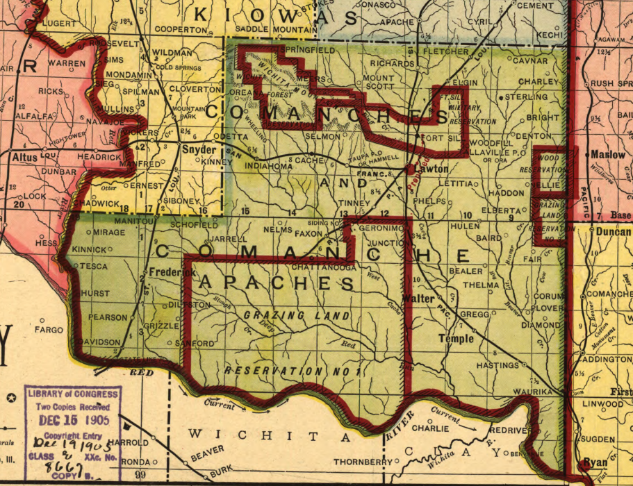 Detail of map showing Indian territories in Oklahoma, from Library of Congress, first published by The Daily Oklahoman in 1905.